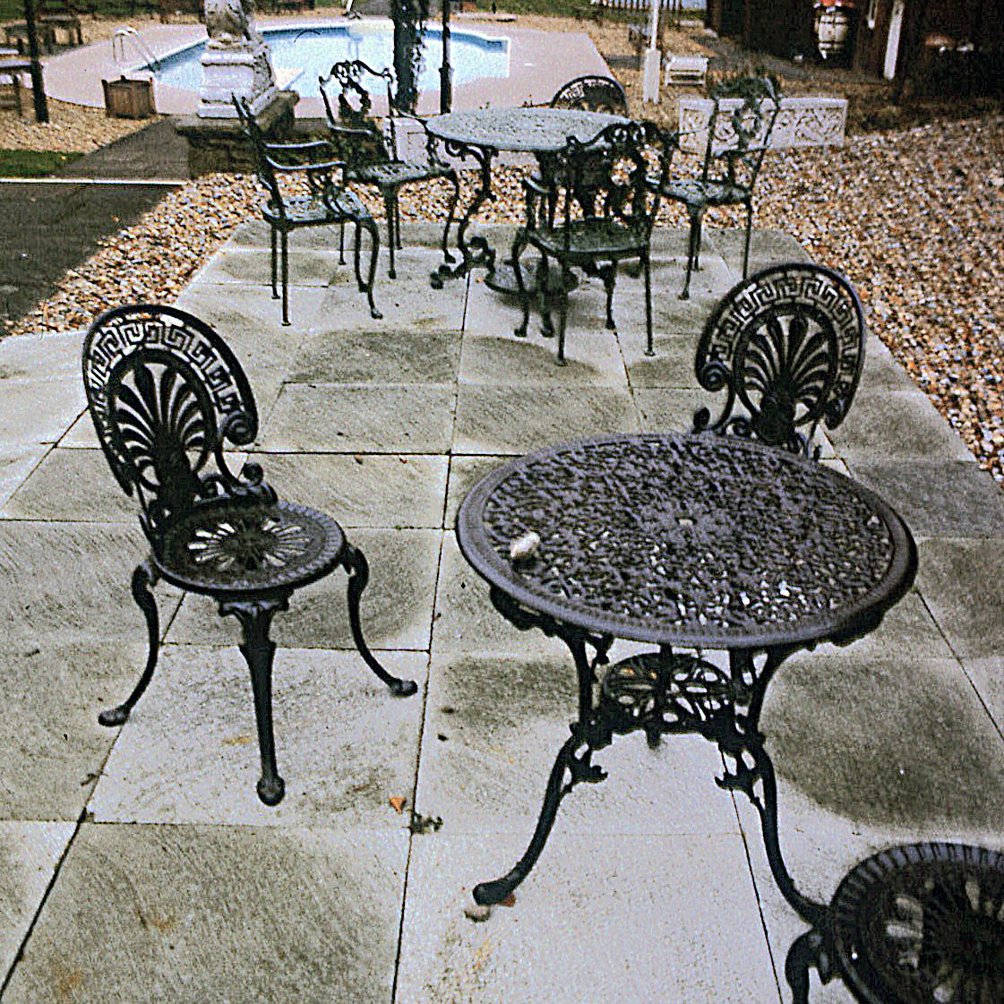 Garden furniture, Ewell, Surrey, Garden and Leisure Centre